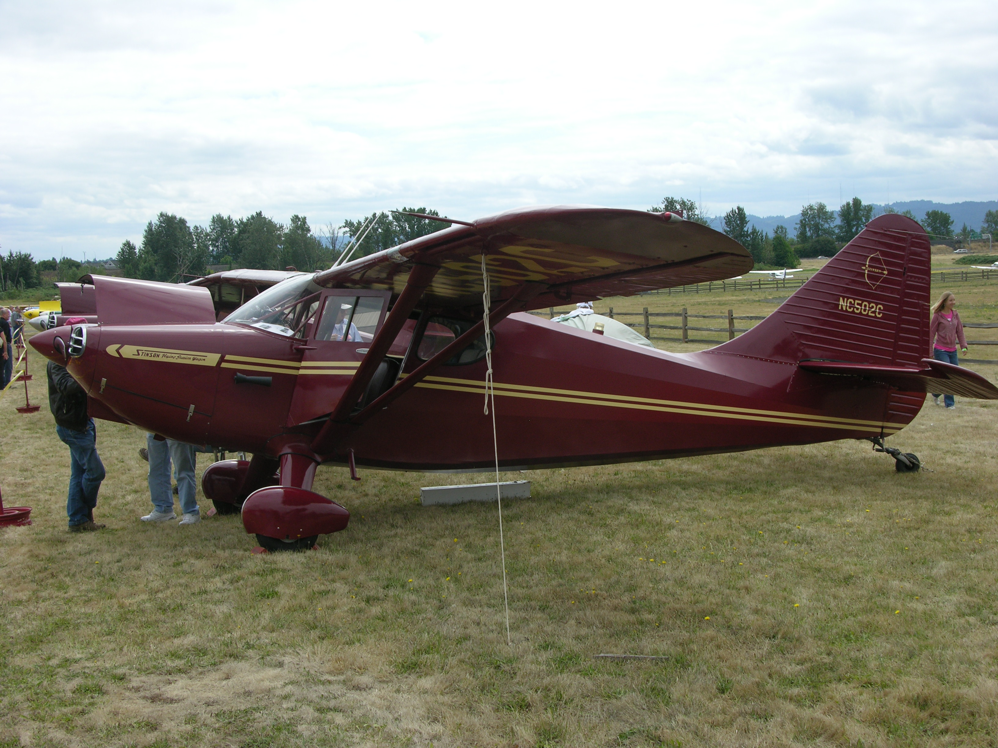 N502C a 1947 Stinson 108-3